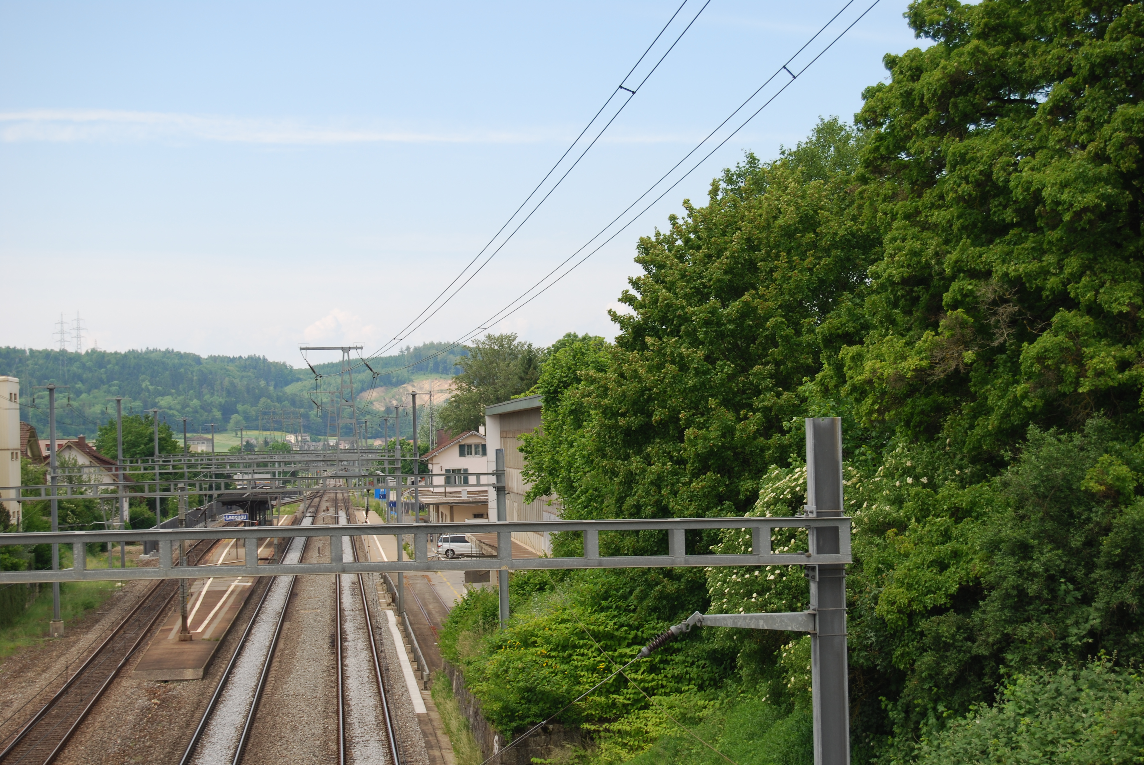 Train station of Lengnau, canton of Bern, Switzerland